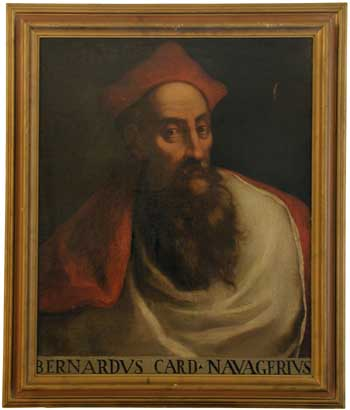 Ritratto cardinlae Bernardo Navagero